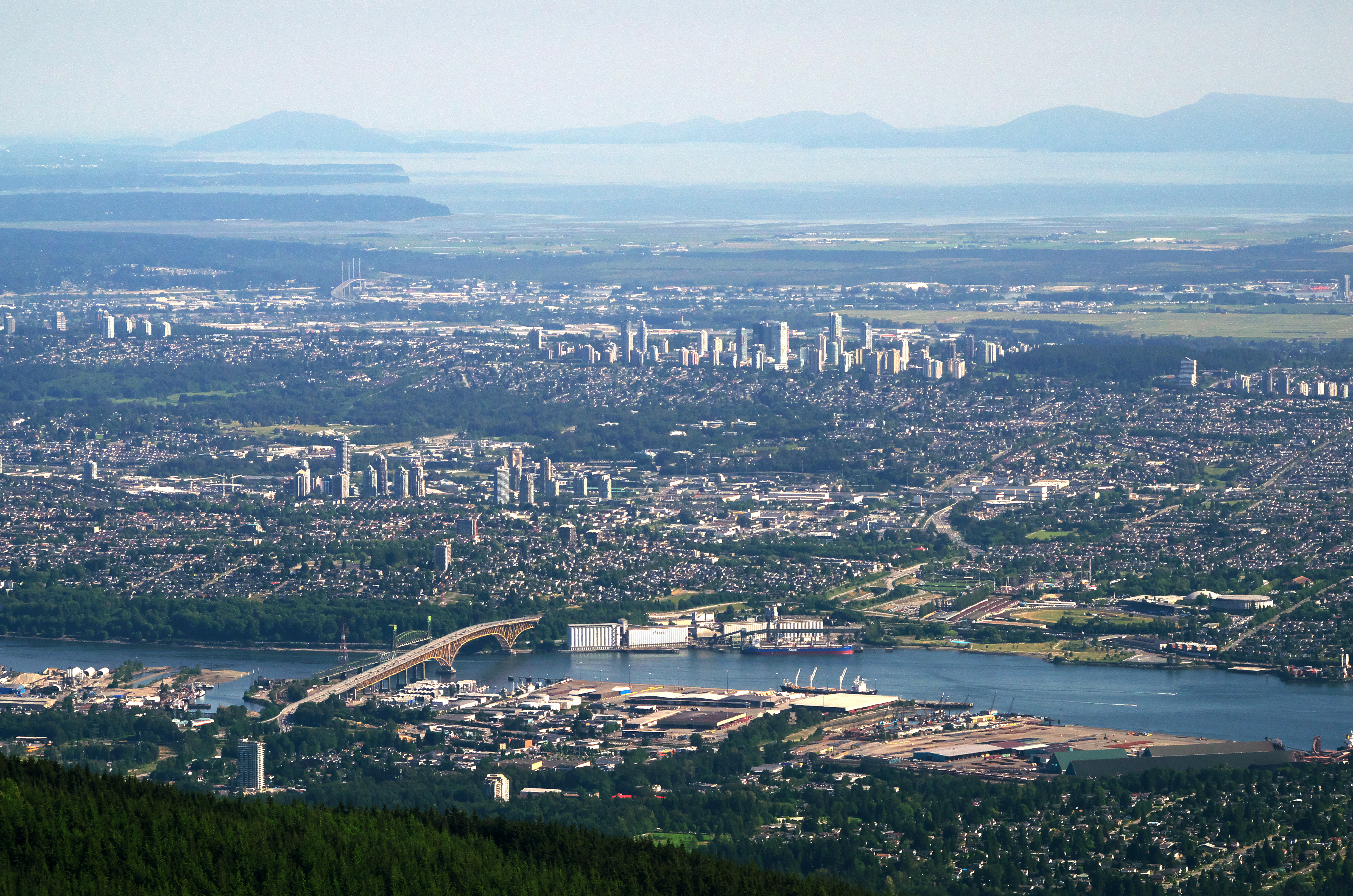 Burnaby, British Columbia. Mt Rainier would be visible on the horizon to the left of centre, if it wasn't for the haze.